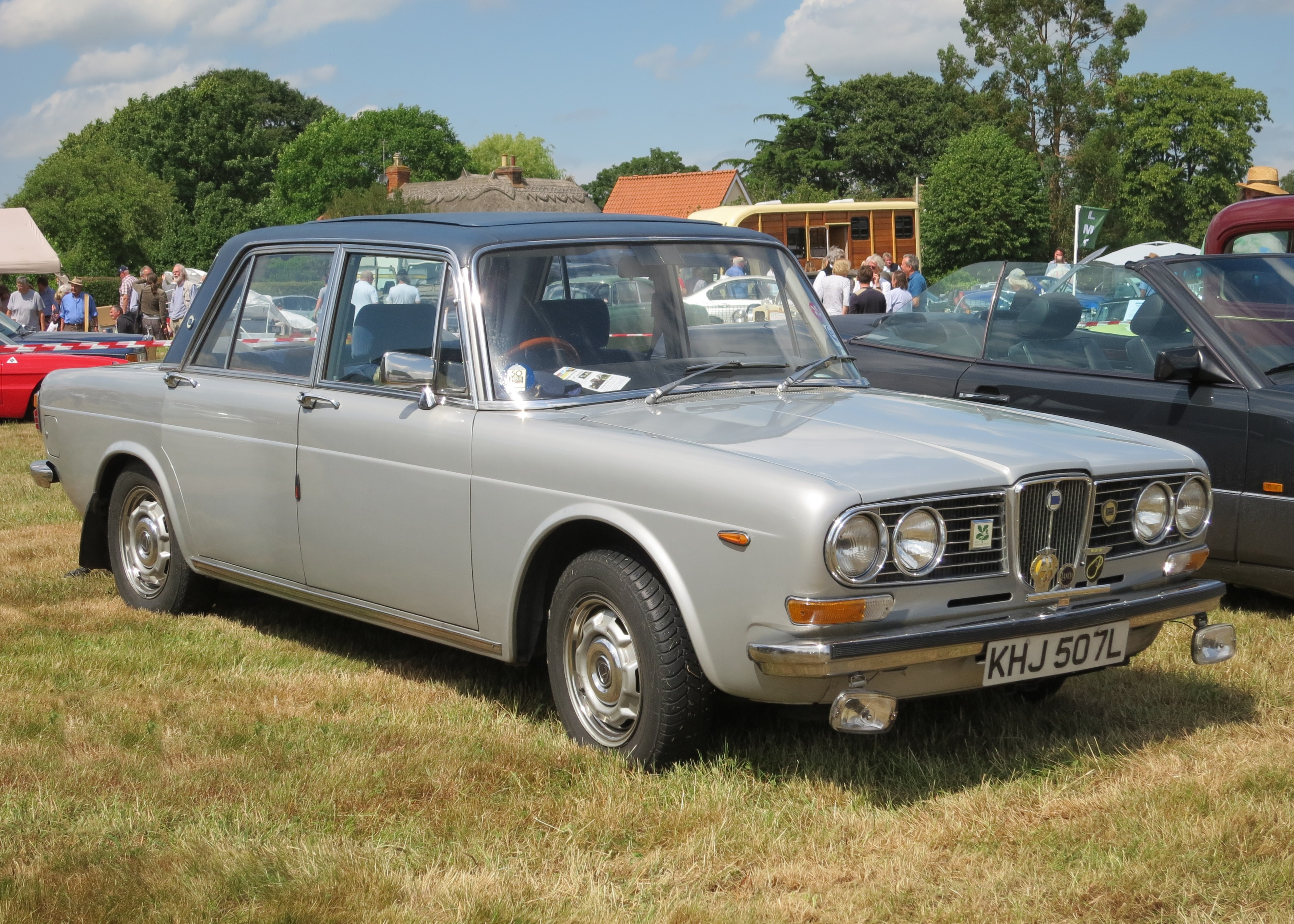 Lancia 2000 Berlina (1973) in Matching Green